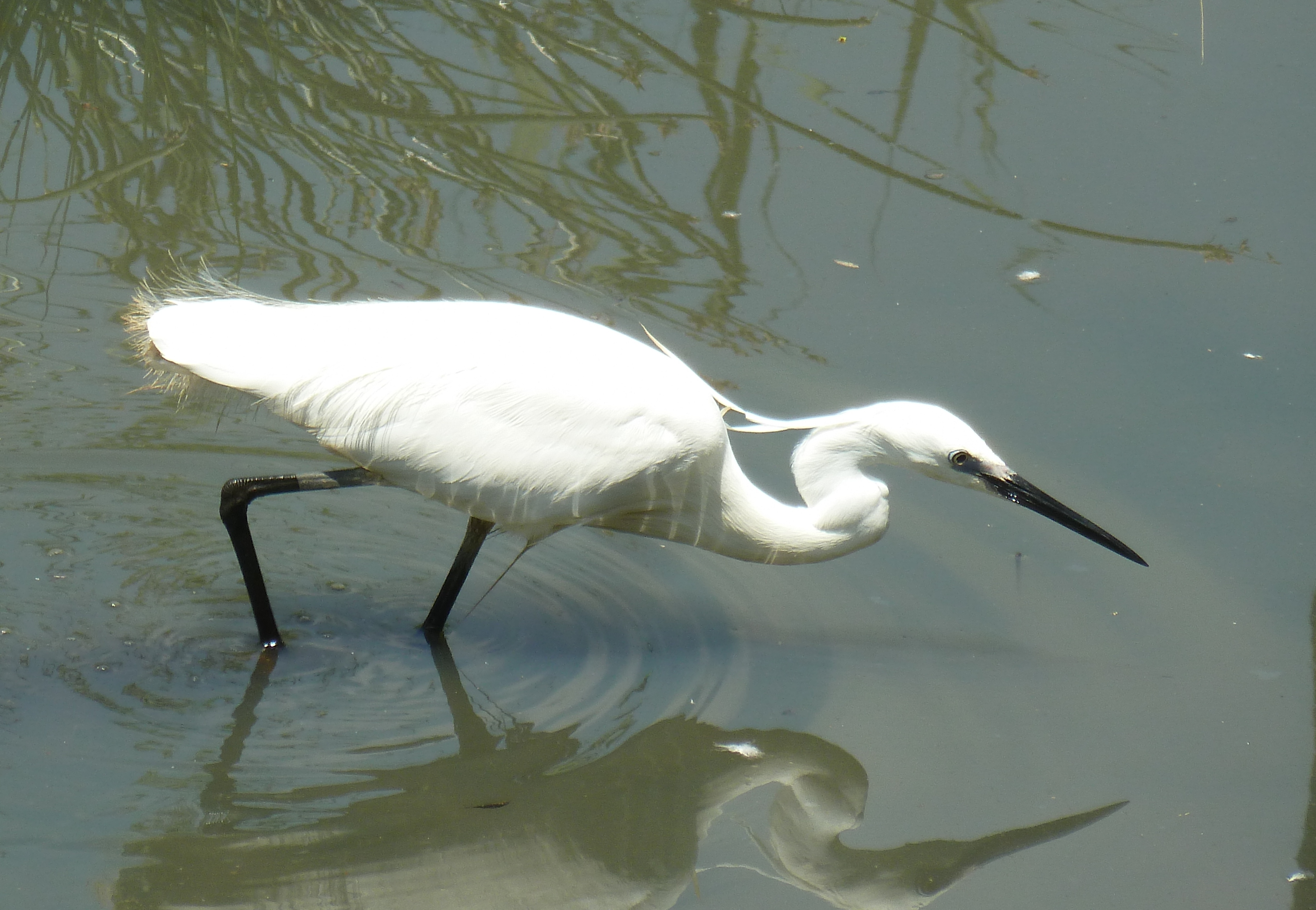 Little egret stalking small fry at Austin Roberts bird sanctuary, Pretoria